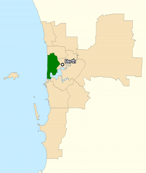 Incorporates or developed using Administrative Boundaries ©PSMA Australia Limited licensed by the Commonwealth of Australia under Creative Commons Attribution 4.0 International licence (CC BY 4.0). Derived from State and Territory Boundaries from the Australian Bureau of Statistics under Creative Commons Attribution 2.5 Australia license (CC BY 2.5 AU)